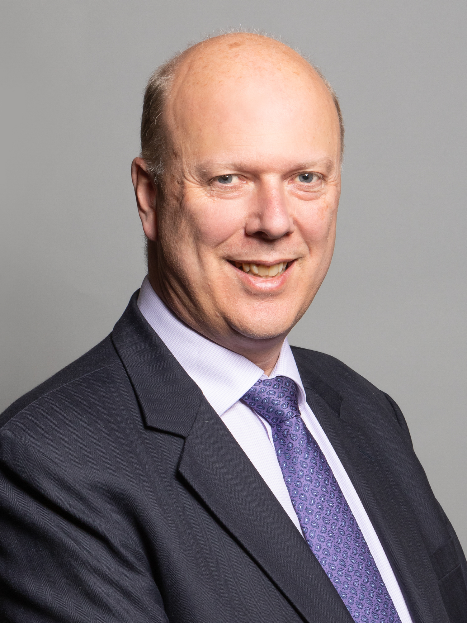 Official portrait of Rt Hon Chris Grayling MP 3×4 portrait of Chris Grayling